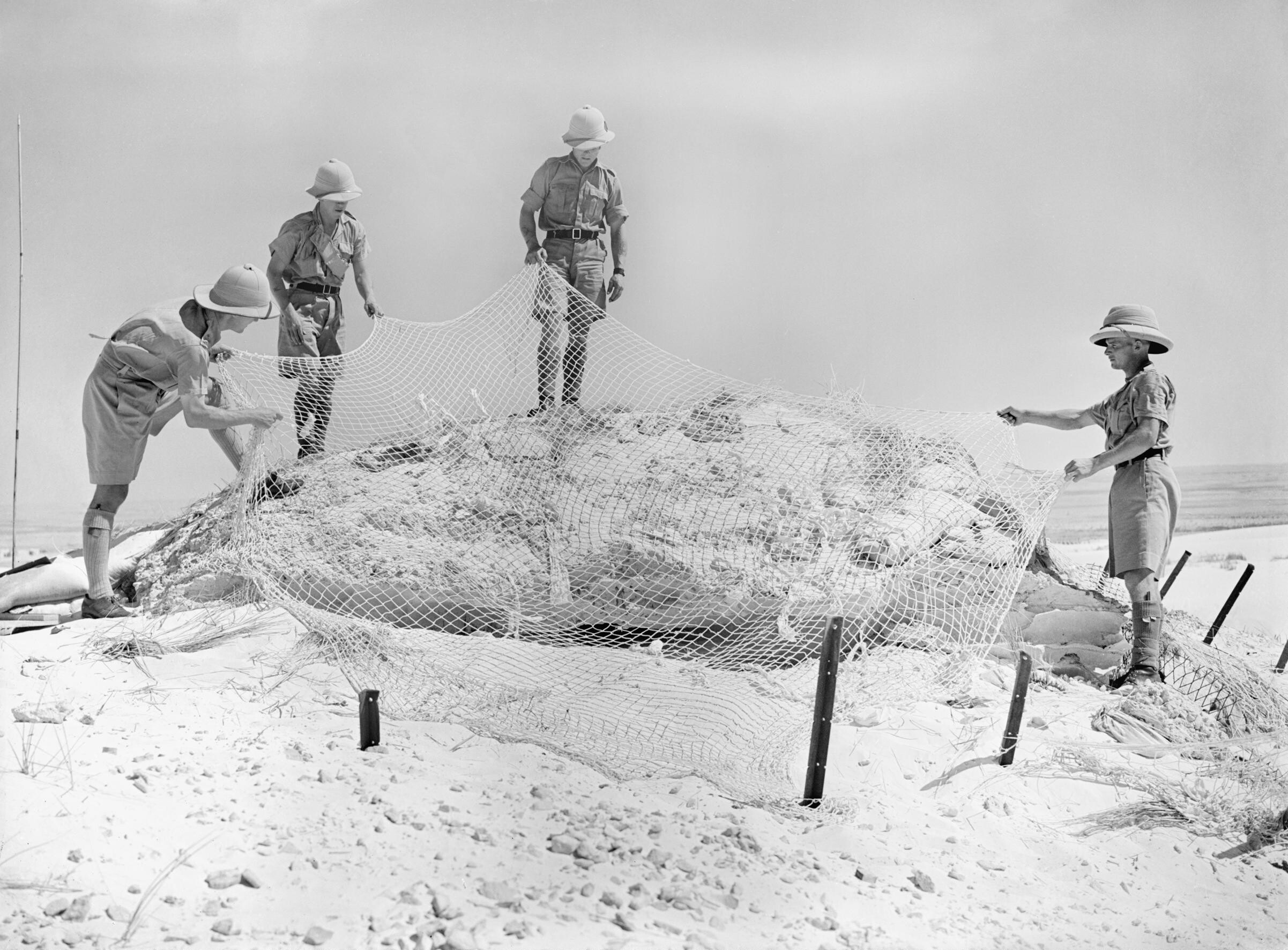 Men of the Highland Light Infantry (City of Glasgow Regiment) camouflaging a gun position at Mersa Matruh, Egypt, 28 May 1940. Men of the Highland Light Infantry (City of Glasgow Regiment) camouflaging a gun position at Mersa Matruh, 28 May 1940.